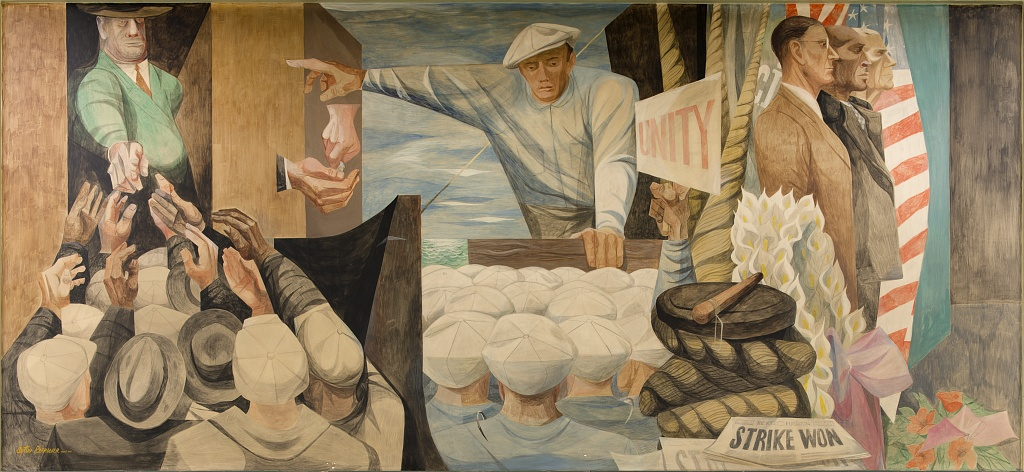 [History of San Francisco mural "The Waterfront" by Anton Refregier at Rincon Annex Post Office located near the Embarcadero at 101 Spear Street, San Francisco, California]